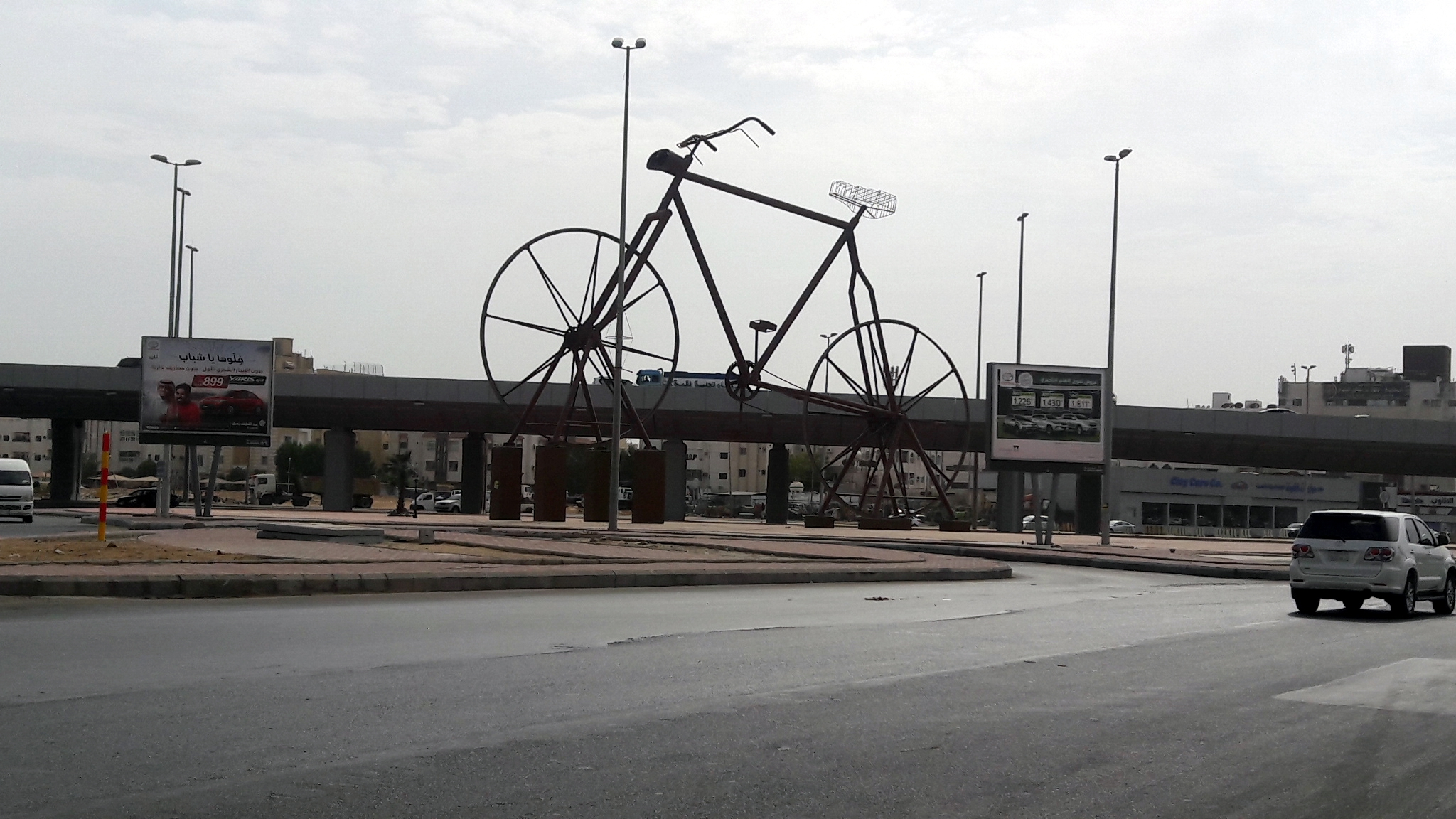 Cycle Roundabout, Jeddah